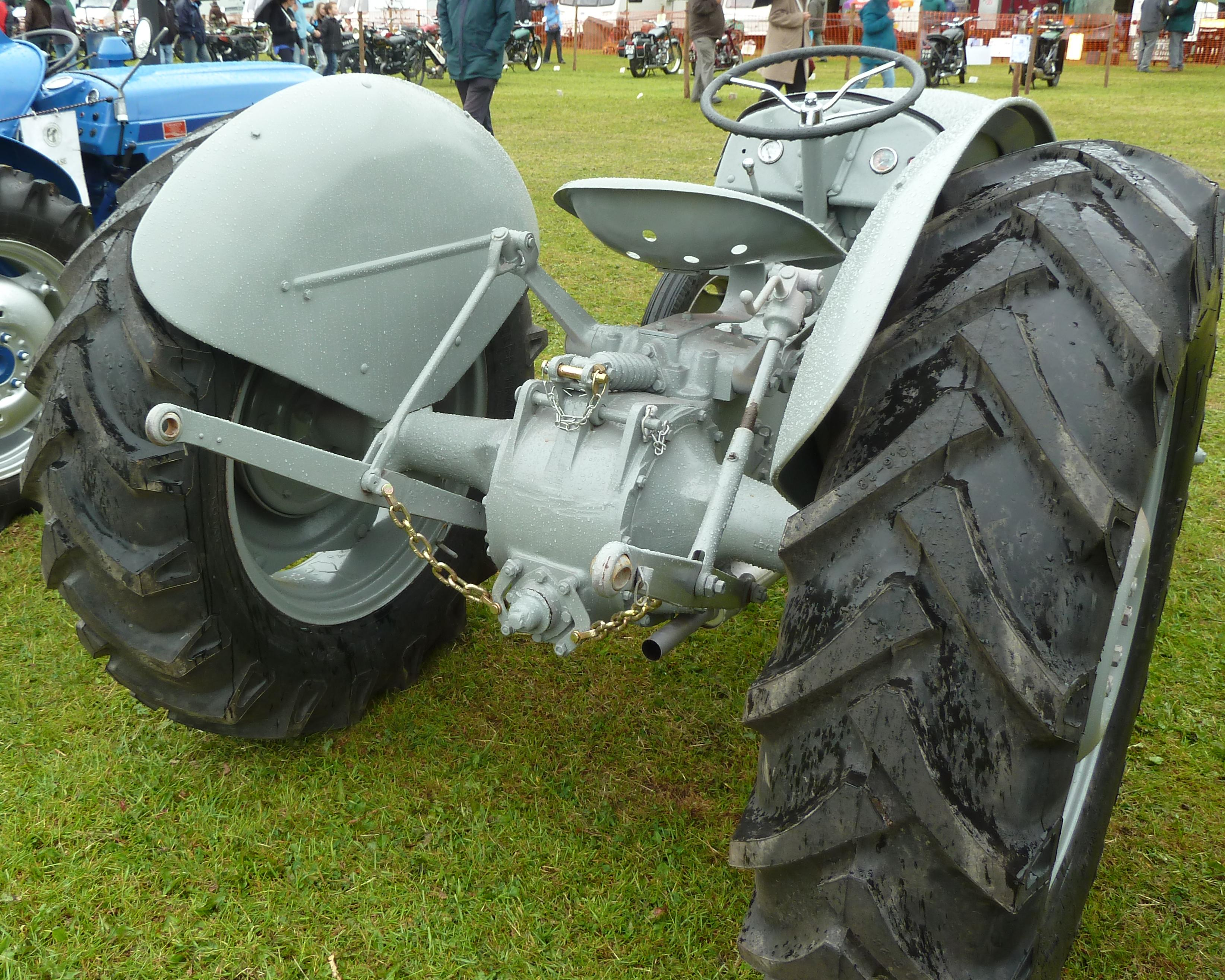 Three-point hitch on a Ferguson TE20 tractor. Abergavenny steam rally, 2011.